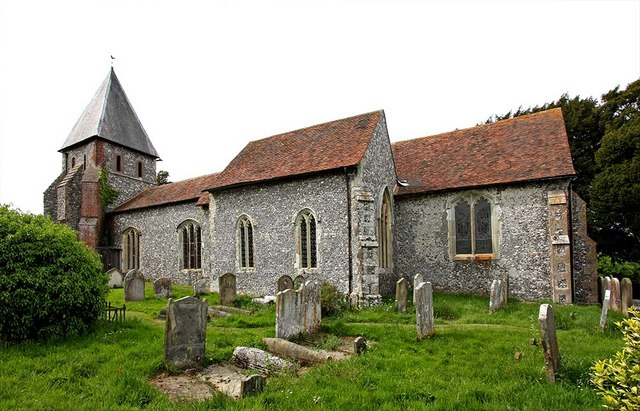 St Mary, Eastling, Kent